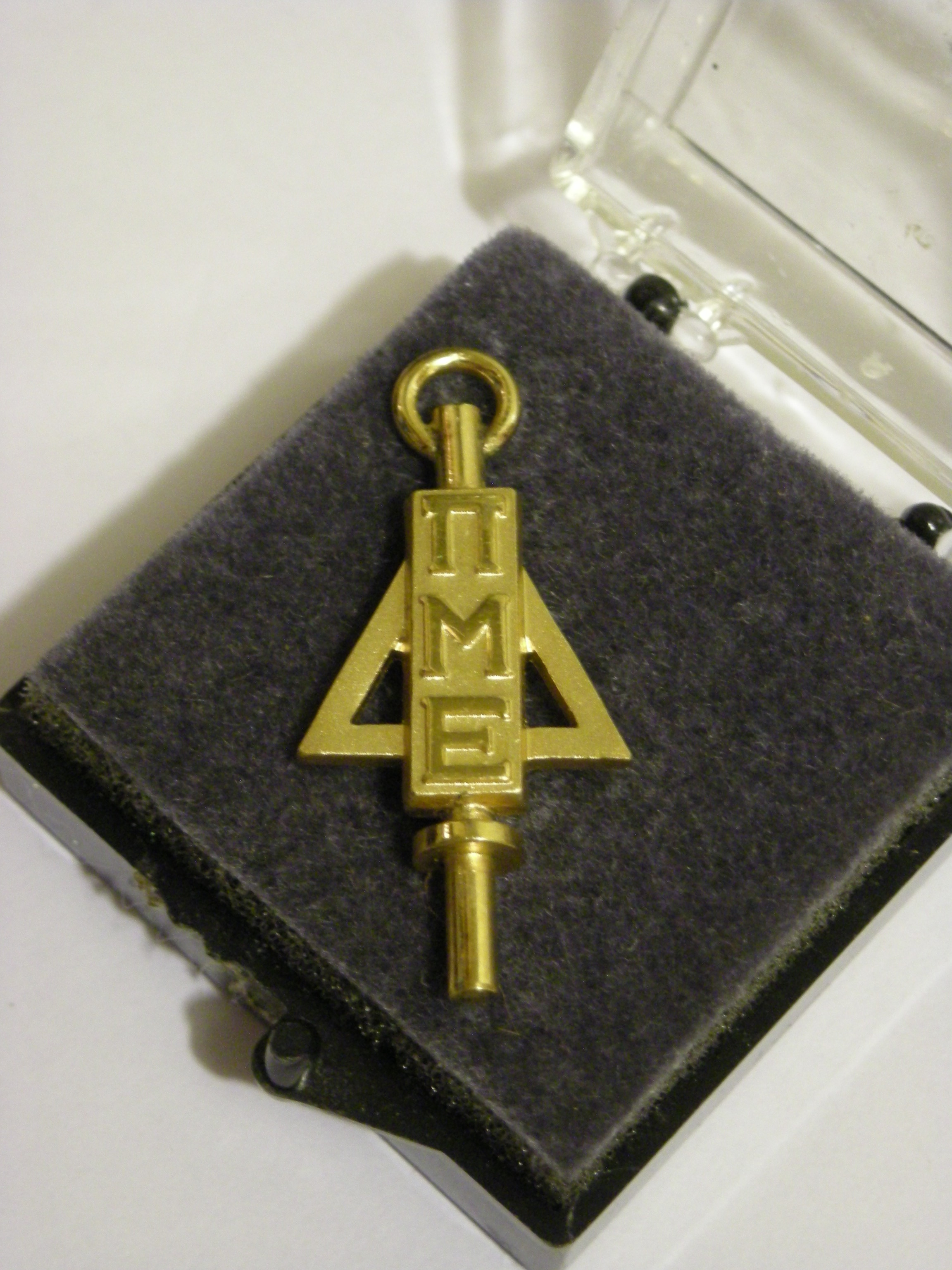 Pi Mu Epsilon Key; design is from 1914, see here